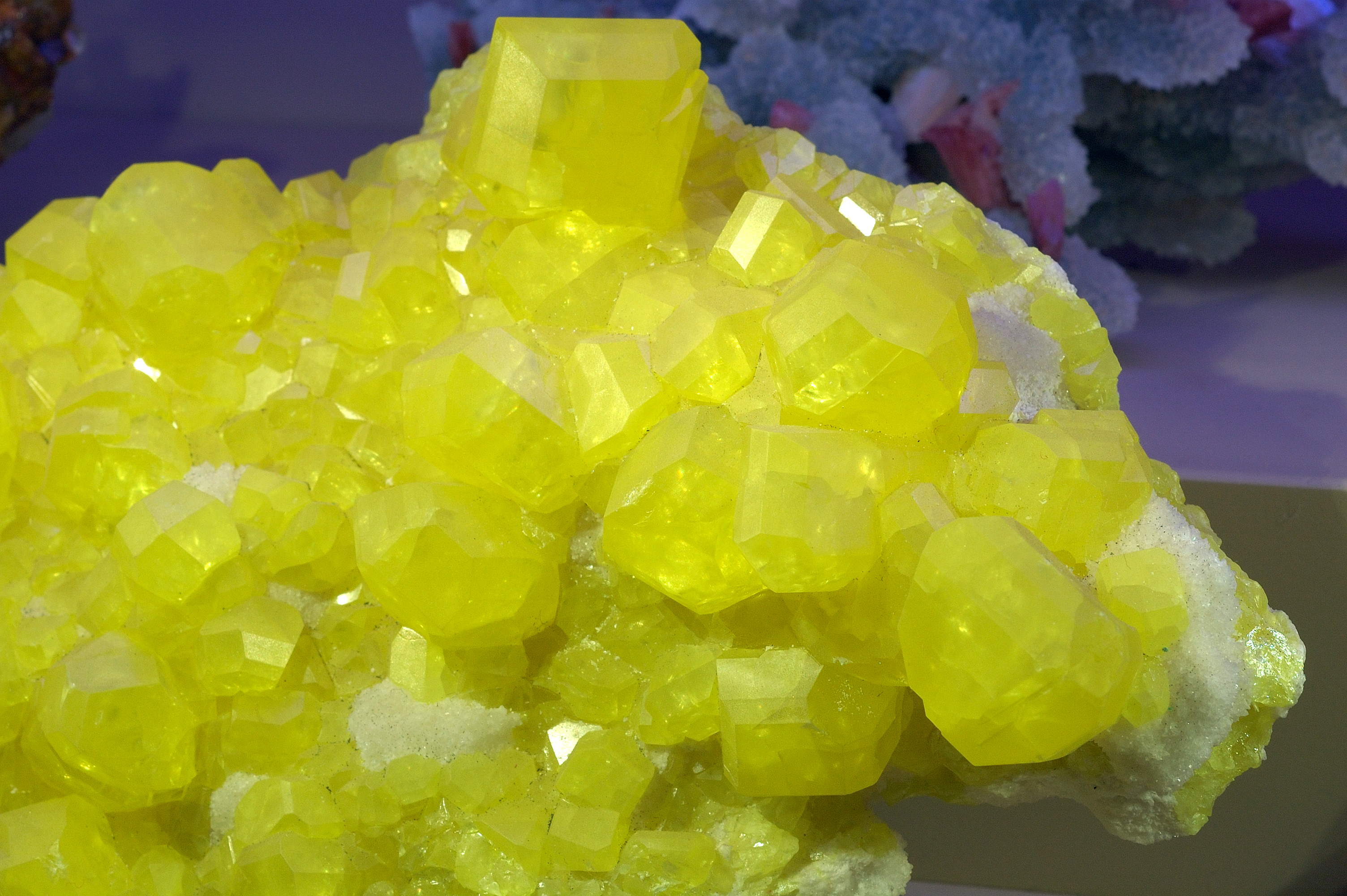 Sulfur crystal, from Agrigento, Sicily, Italy